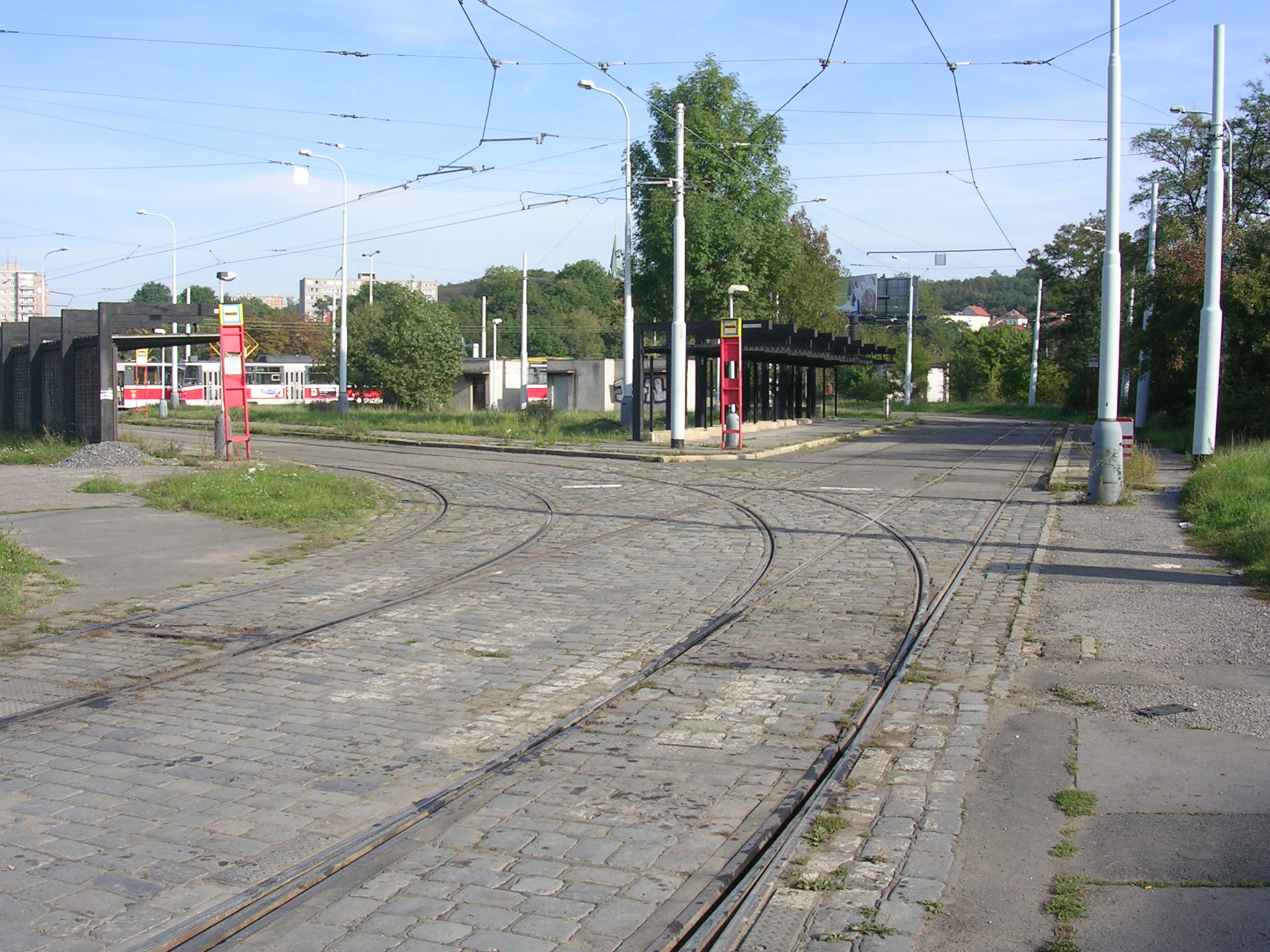 Tram loop Starý Hloubětín, Prague-Hloubětín, Czech Republic.